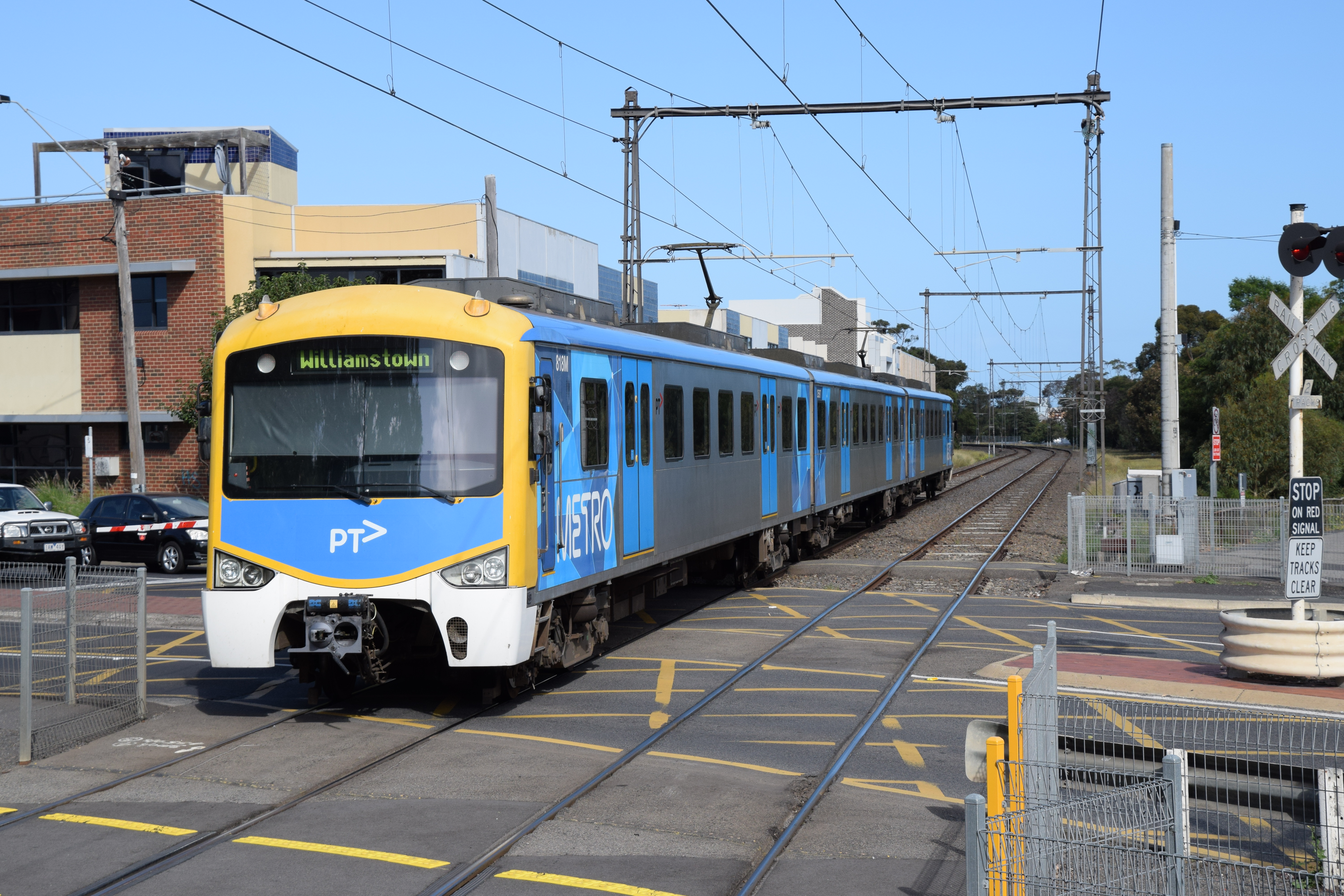 Metro Trains Melbourne 5'3" gauge 1,500 V dc overhead 'Nexus' Class suburban 3-car emu with driving motor No.818M leading approaching North Wiliamstown on a Williamstown - Newport service, 2 April 2016. Siemens (Wein) built 72 of their stainless steel Modular Metro design for MTM in 2002-05.